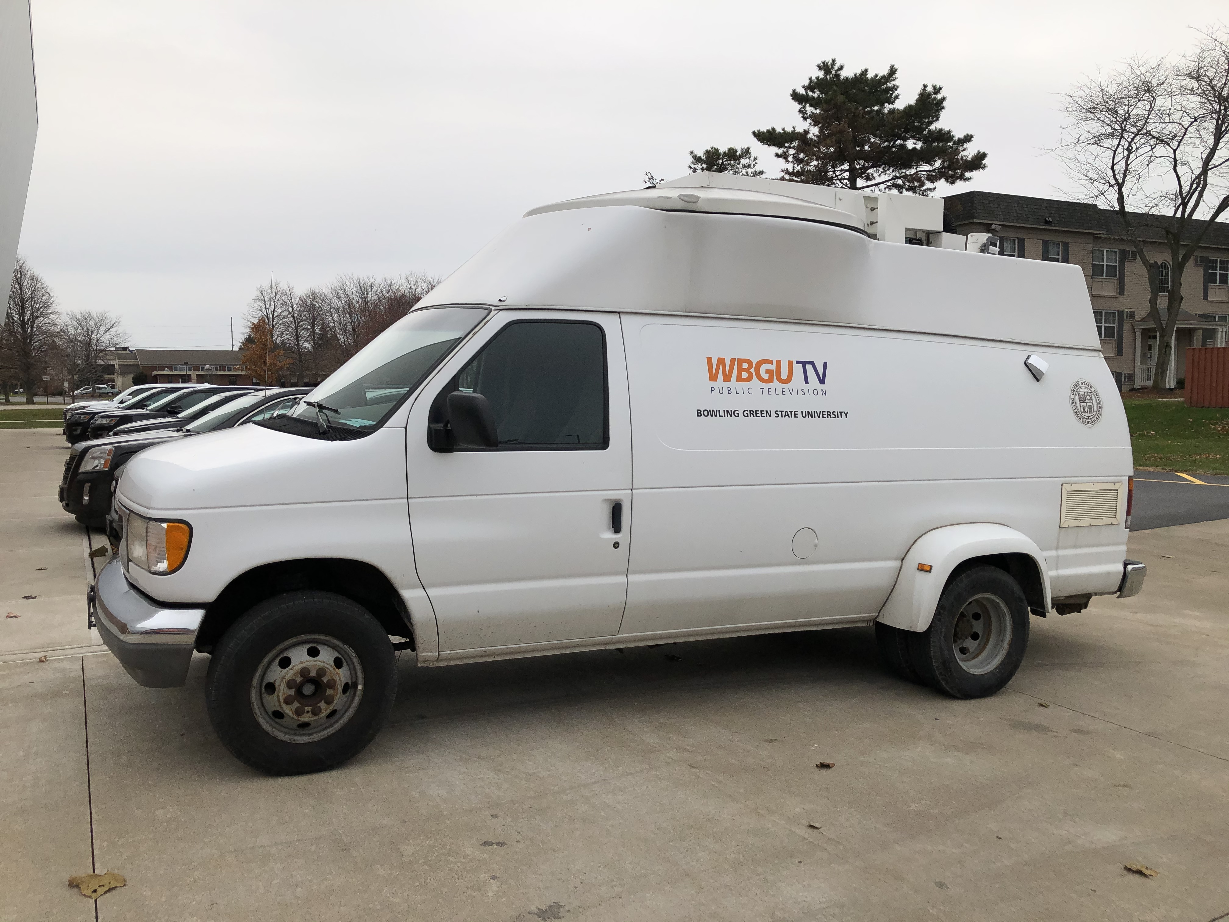 WBGU Van